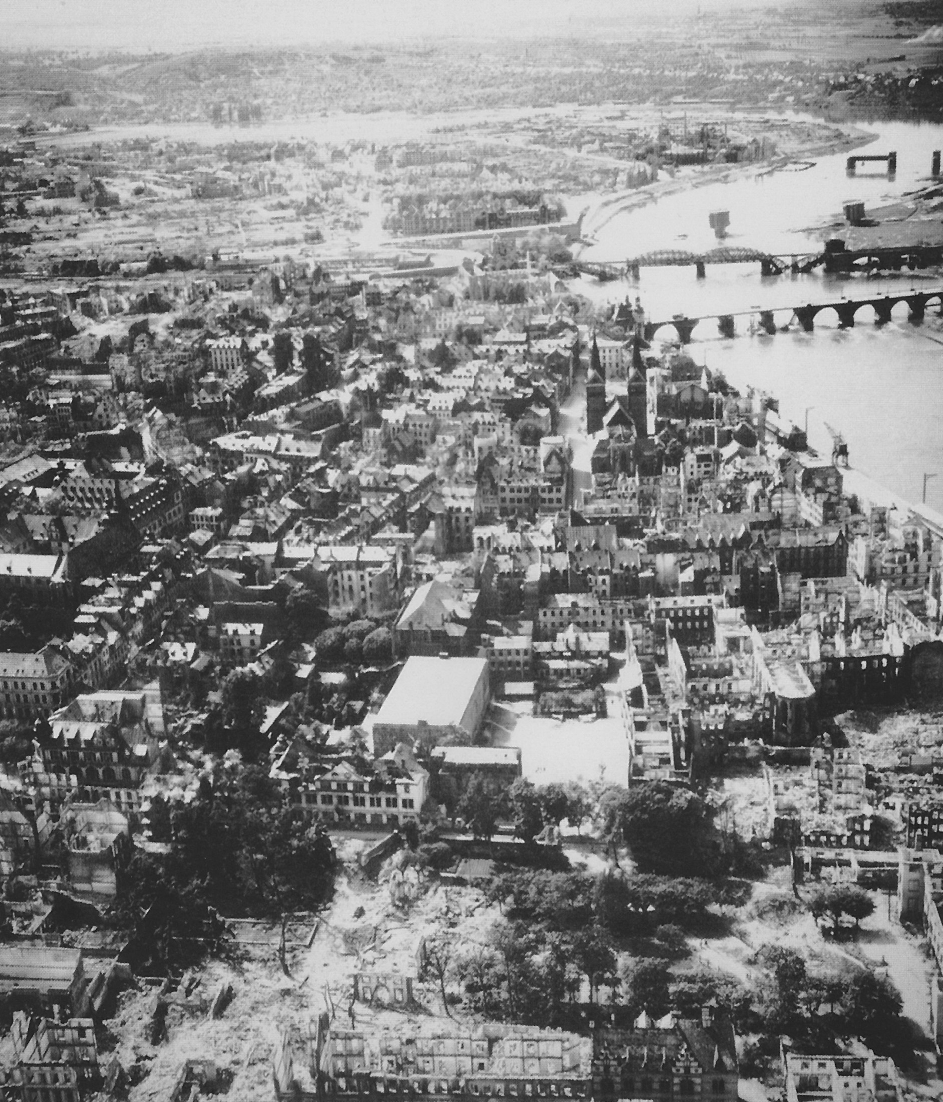 The destroyed city of Koblenz after World War II 1945